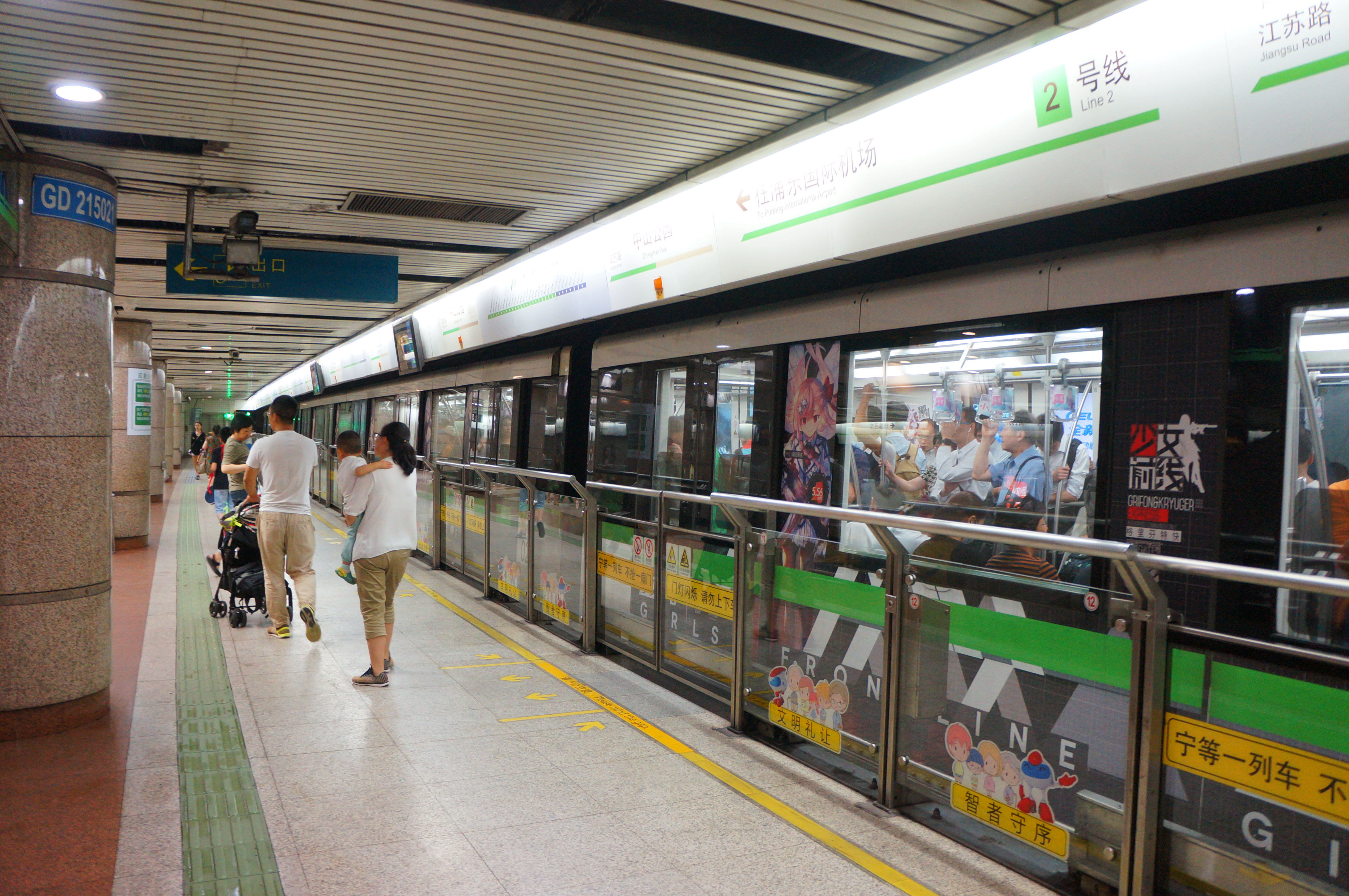 201706 Shanghai Metro AC08 Grifongkryuger Express Train at Zhongshan Park Station. OK, all station cats between Jing'an Temple and Songhong Road has images about trains advert livery except for Loushanguan Road Station.